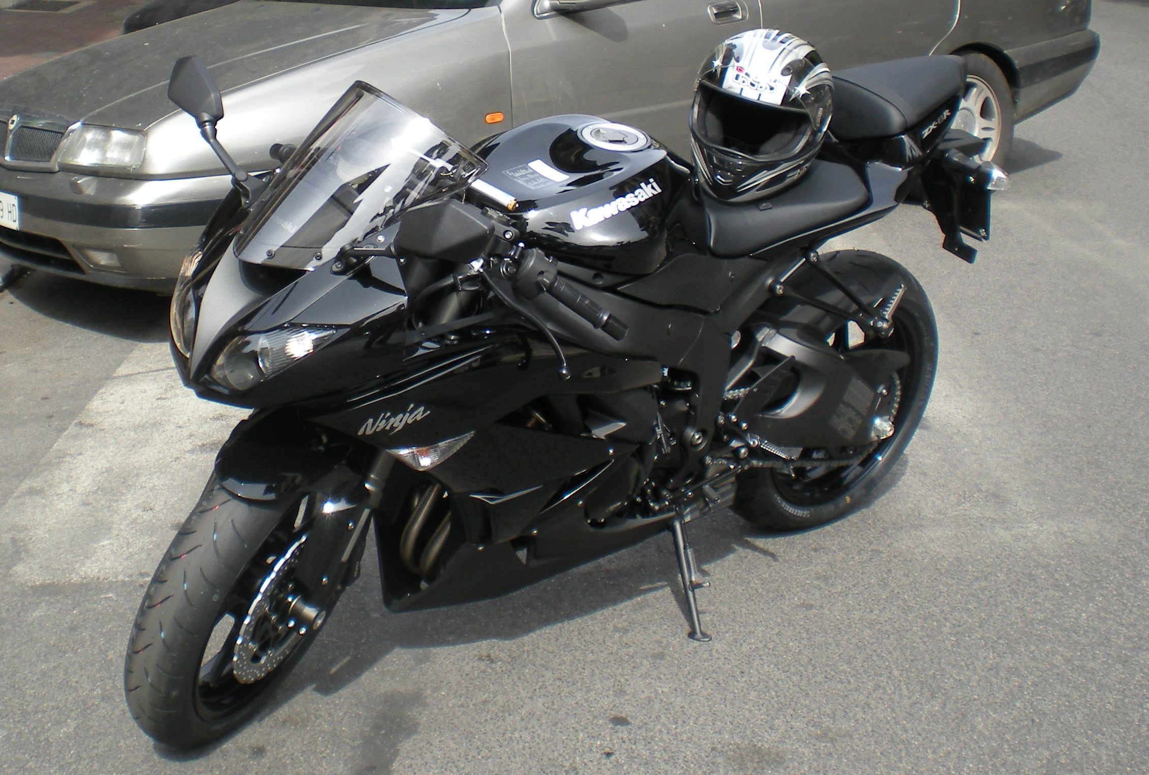 The motorbike is mine and i have done the photo